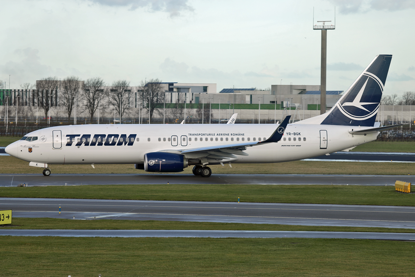 YR-BGK_20180121_AMS_0376